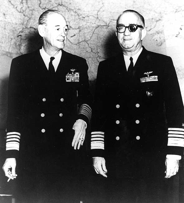 Photo #: NH 92748 Admiral John S. Thach, USN, Commander in Chief, U.S. Naval Forces, Europe (left) Pays a farewell call on Admiral Charles D. Griffin, USN, Commander in Chief, Allied Forces, Southern Europe, at Naples, Italy, in April 1967.